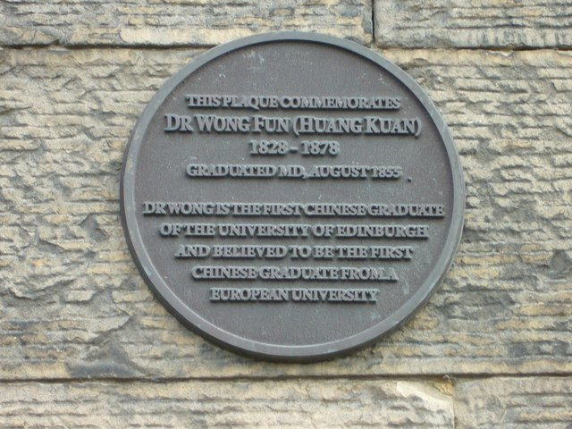 Dr Wong Fun plaque, Buccleuch Place